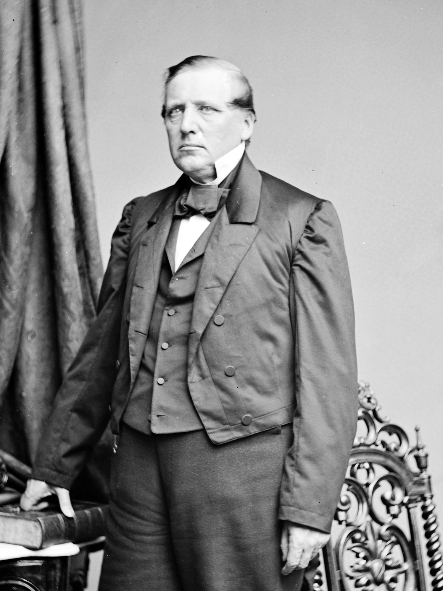 TITLE: Sec. John P Usher, Sec of Interior CALL NUMBER: LC-B813- 1708 A[P&P] REPRODUCTION NUMBER: LC-DIG-cwpb-05570 (b&w copy scan) No known restrictions on publication. MEDIUM: 1 negative : glass, wet collodion. CREATED/PUBLISHED: [between 1860 and 1870] NOTES: Title from unverified information on negative sleeve. Forms part of Brady Civil War Photograph Collection (Library of Congress). SUBJECTS: United States--History--Civil War, 1861-1865. FORMAT: Portrait photographs 1860-1870. Glass negatives 1860-1870. REPOSITORY: Library of Congress Prints and Photographs Division Washington, D.C. 20540 USA DIGITAL ID: (b&w scan) cwpb 05570 Category:United States history images